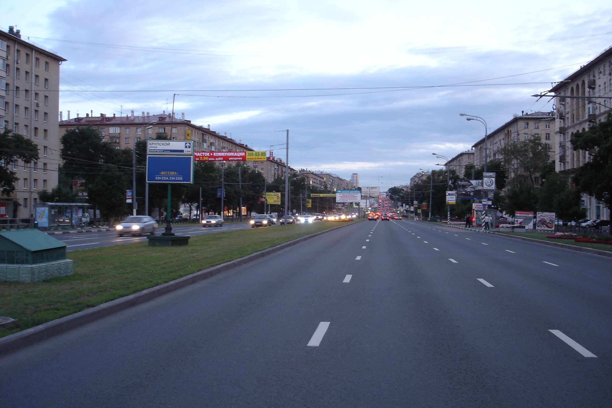 Leninsky prospect, to Stroitelej and Panfjorova streets crossroad. Moscow, 2009